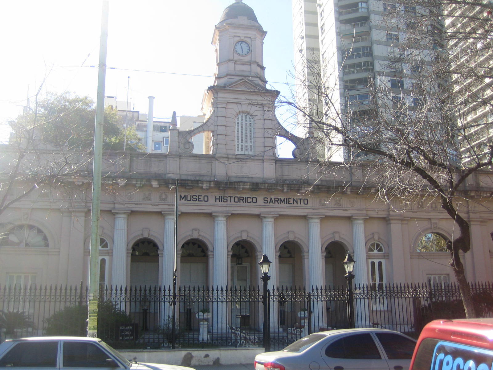 Historical museum Sarmiento. Buenos Aires, Argentina